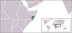 Location of Galmudug